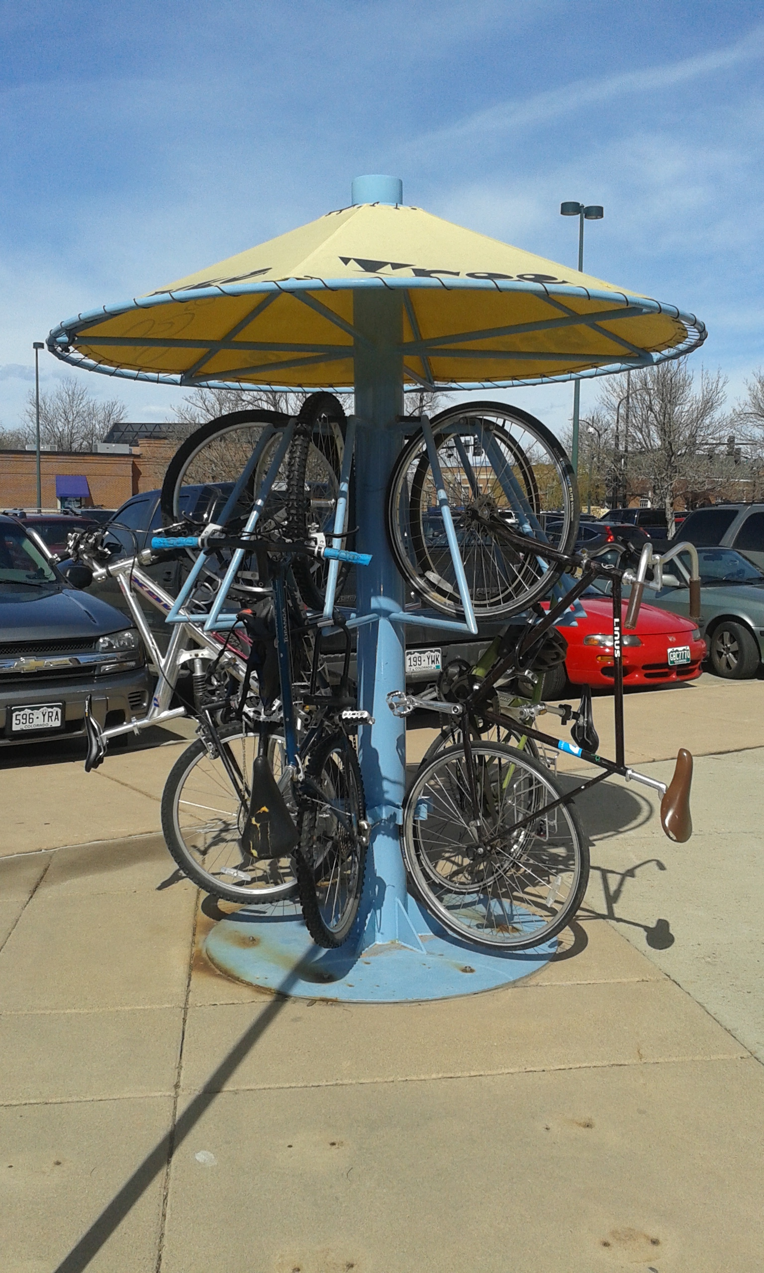 Upright bike rack shelter at Littleton-Downtown Station